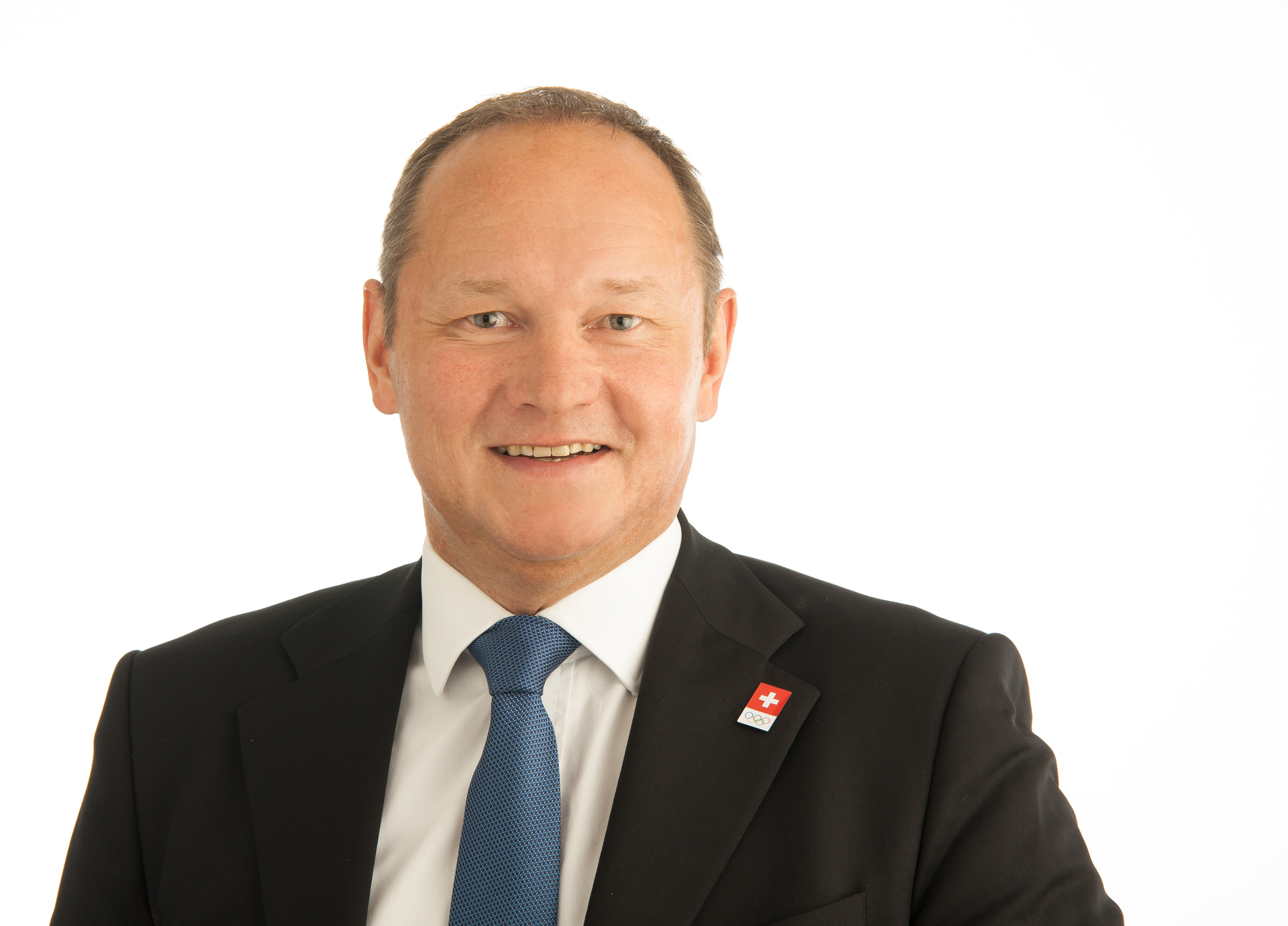 Stahl Juerg